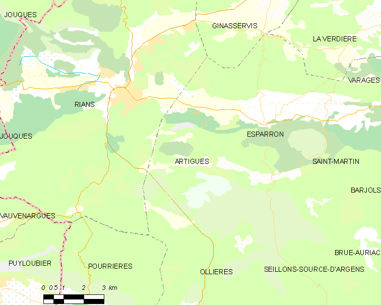 Map of French municipality Artigues